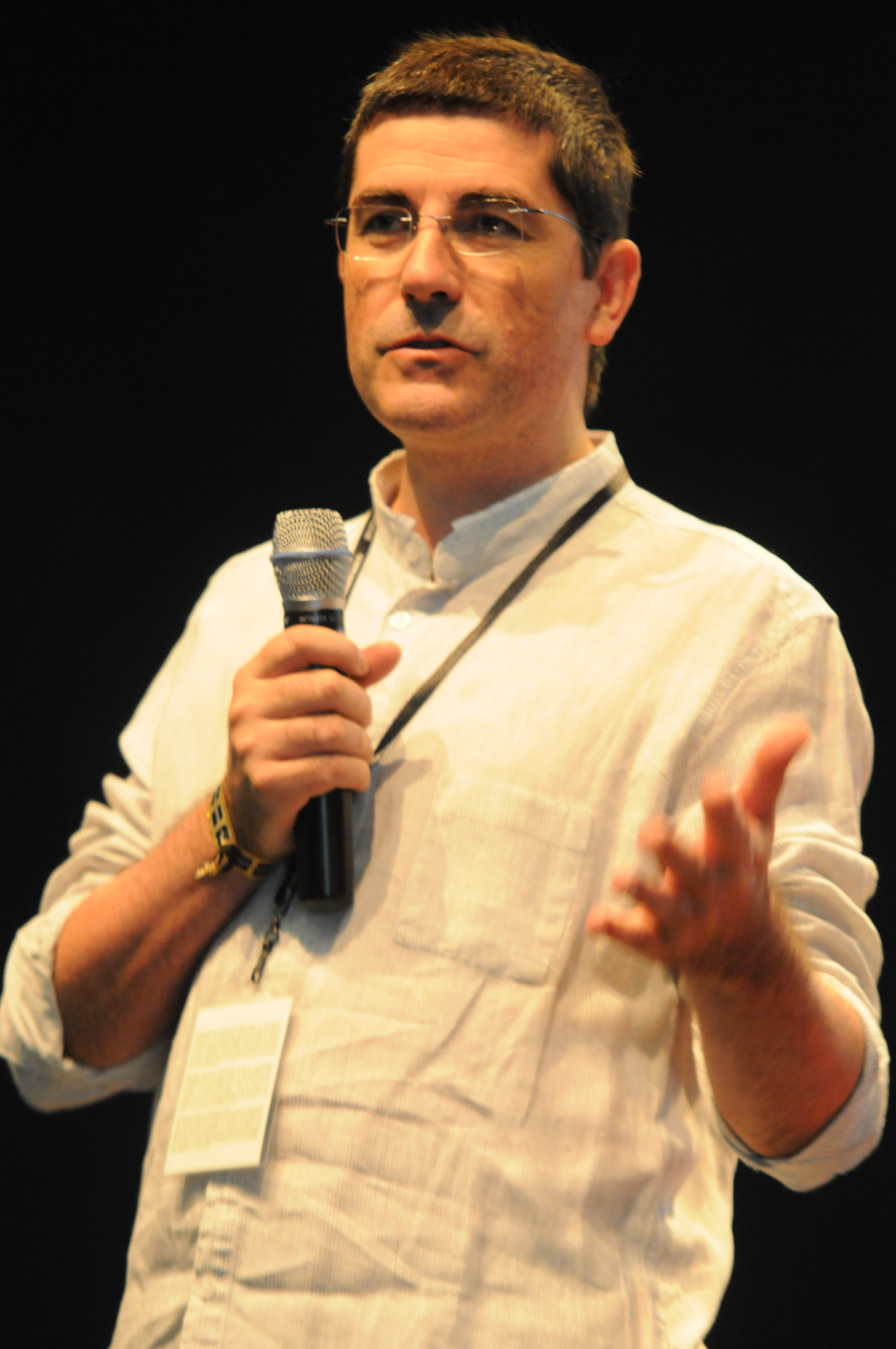 Xavier Serra (MTG), Music Hack Day Barcelona 2012